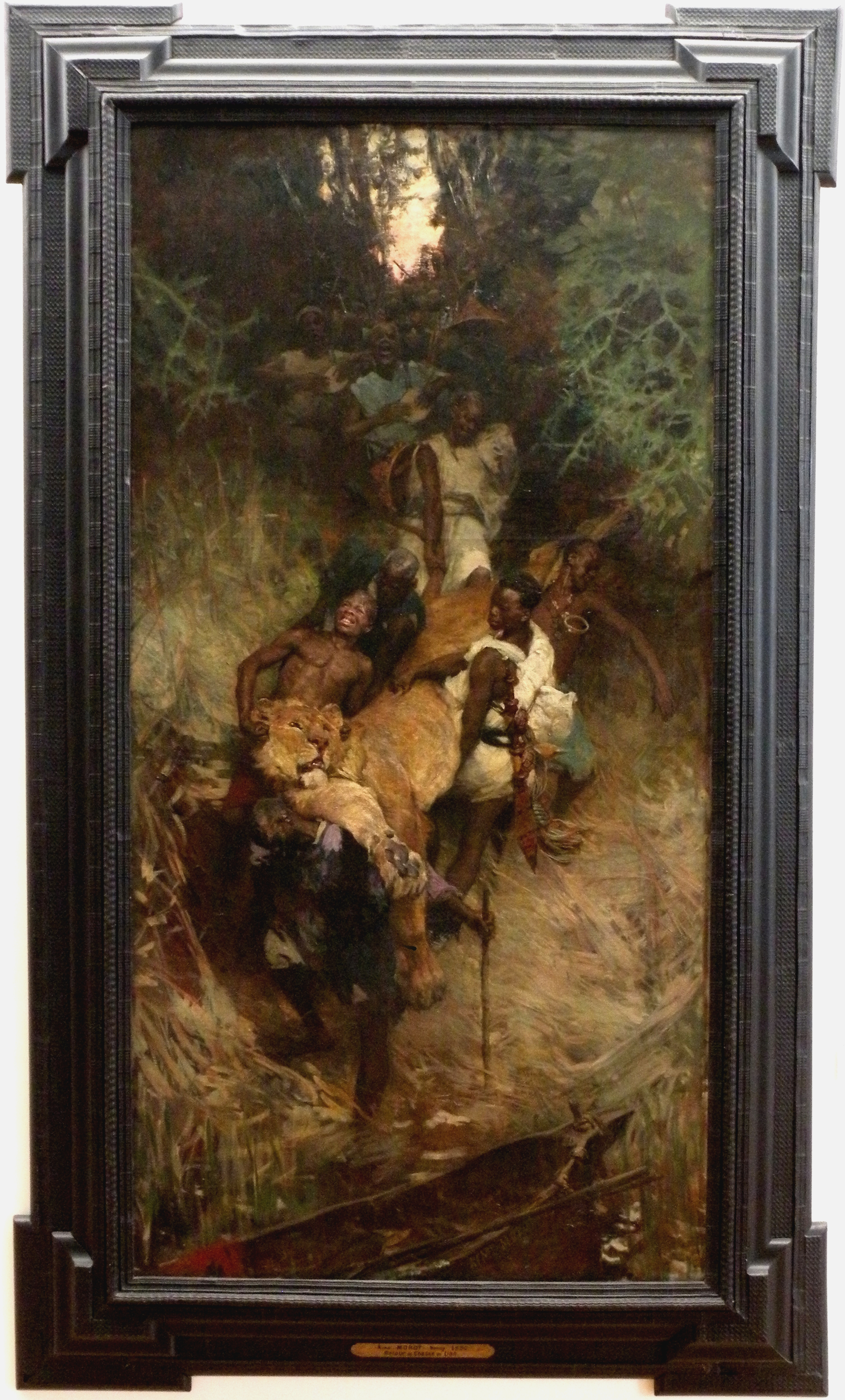 Aimé Morot: retour de chase au lion. Oil on canvas painting in the permanent exhibition of the Musée des beaux-arts de Nancy, in France.